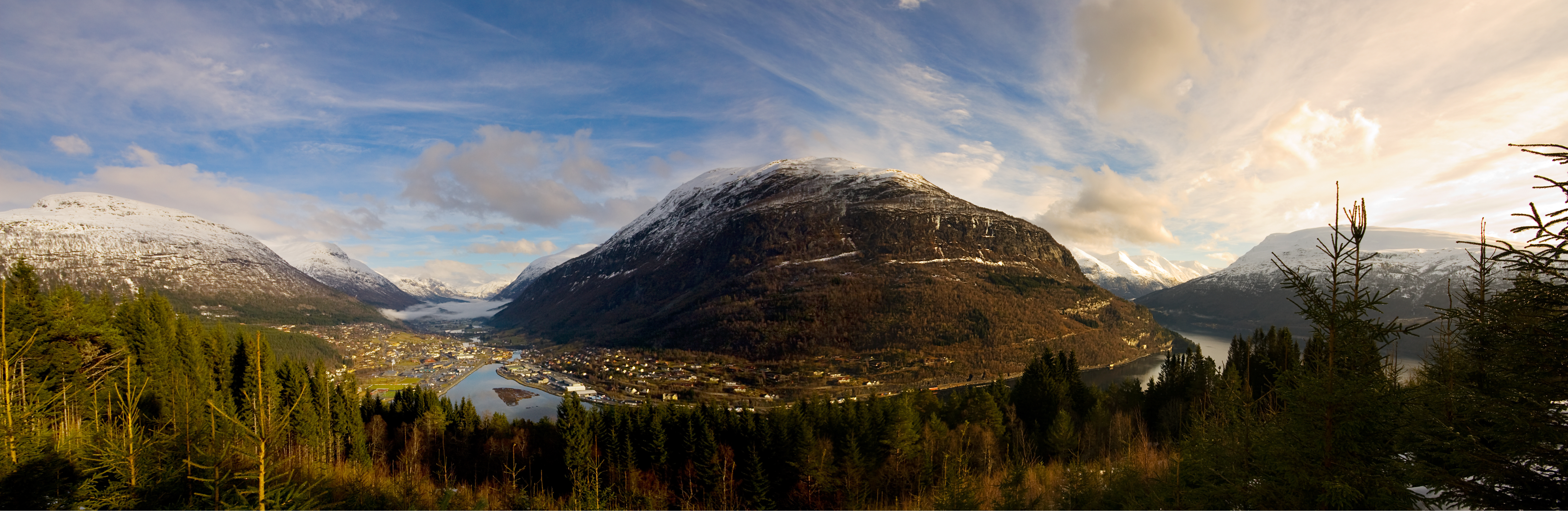 Stryn, Norway Stryn is a municipality in the county of Sogn og Fjordane, Norway. It is located in the traditional district of Nordfjord. The administrative center of the municipality is the village of Stryn which had a population of 2,140 in 2007.The municipality is located along the innermost part of the Nordfjord.